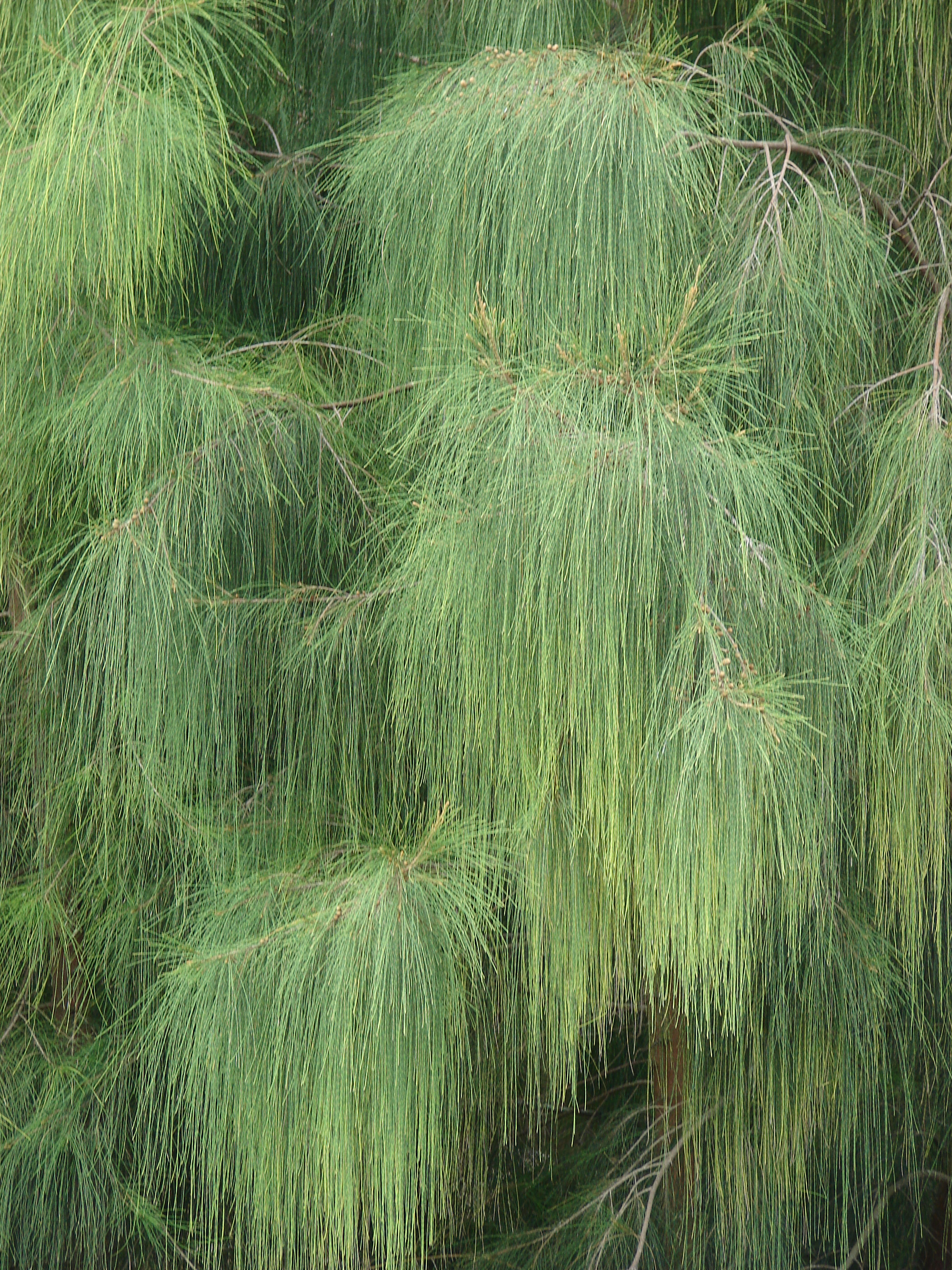 Casuarina glauca (leaves). Location: Midway Atoll, Cable Company buildings Sand Island